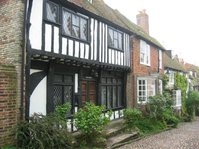 This photograph was taken by me in Rye in May 2005 and may be used by Wikipedia IXIA 13:51, 22 September 2006 (UTC)